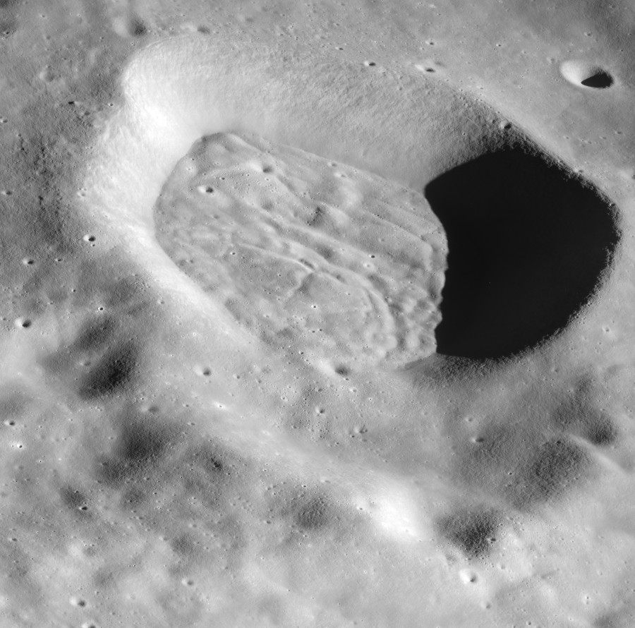 Oblique view of Mandel'shtam Q crater, southwest of Mandel'shtam, on the far side of the moon. This is Figure 237 of Apollo Over the Moon (NASA SP-362, 1978), which has the following caption: A view looking south into a small 19-km diameter crater southwest of Mandel'shtam on the lunar far side. The crater has a floor that is heavily lineated and grooved, but this structure is subdued rather than sharp and is contained wholly within the crater. The cracked floor is typical of a variety of craters that occur in the highlands away from the mare basins. They differ from cracked floor craters, such as Humboldt, and rilled craters, such as Goclenius; their origin is unknown.- J.W.H. (James W. Head III)